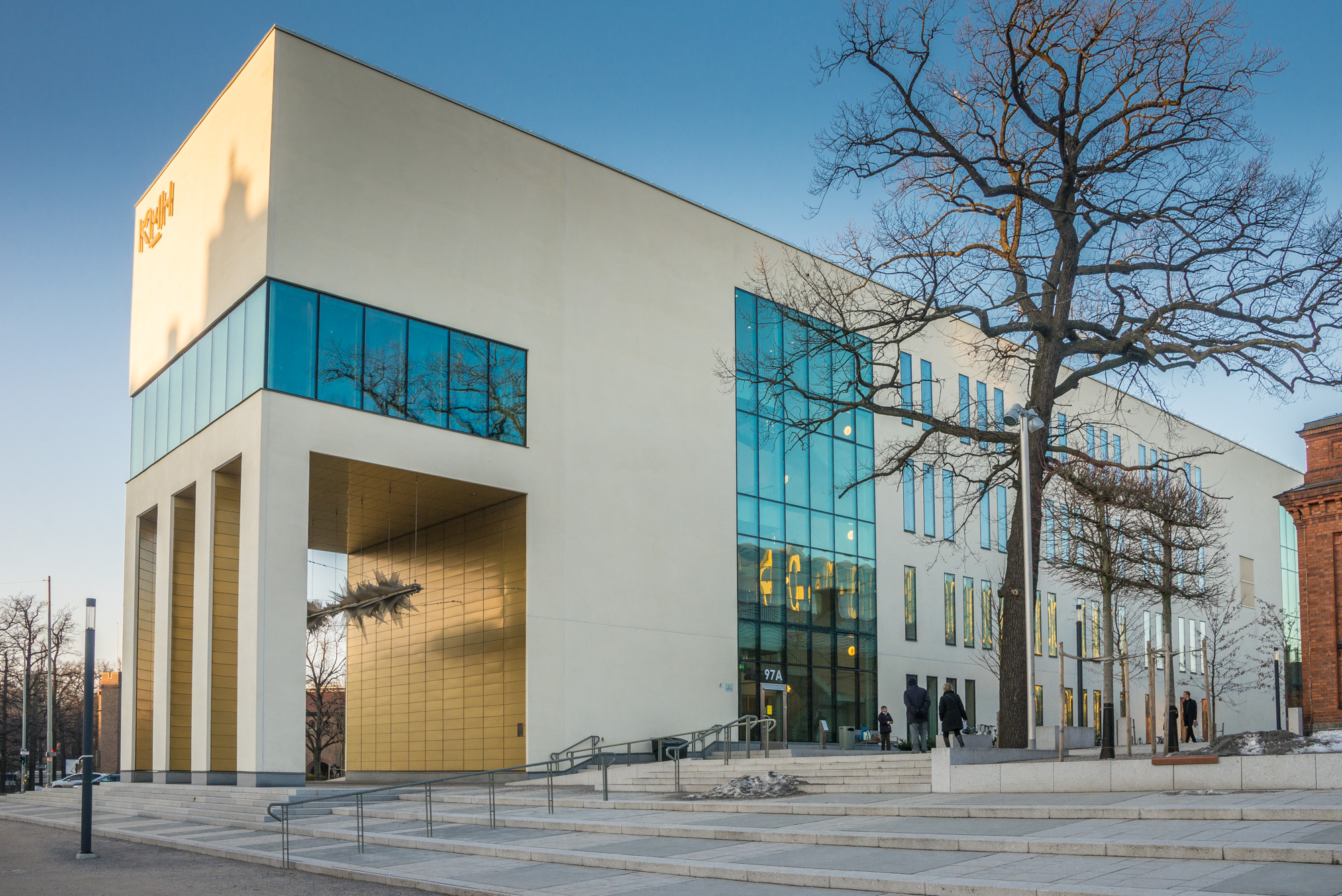 Royal College of Music, Stockholm january 2017.